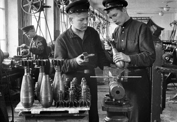 “Shells for the army”. Students of an industrial school making shells for the army.